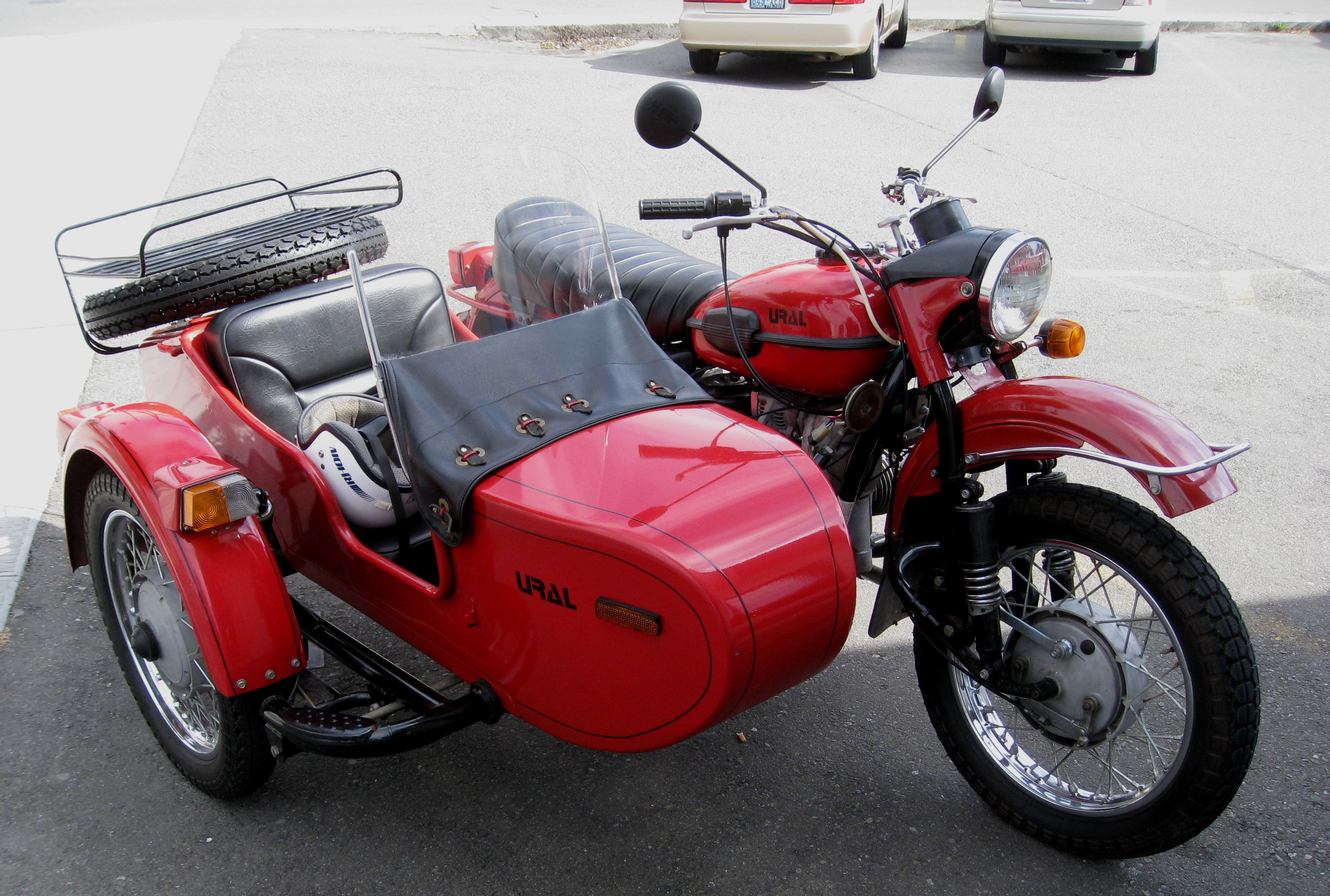 After looking at a 57 Chevy for a while, I had to check out this cool bike. Eventually I made it back to brekky with my (patient) wife s100724 029